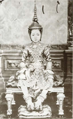 HRH Princess Voralaksanavadi, daughter of King Chulalongkorn (Rama V the Great) of Siam and Chao Chom Manda Sud Sukumolchan